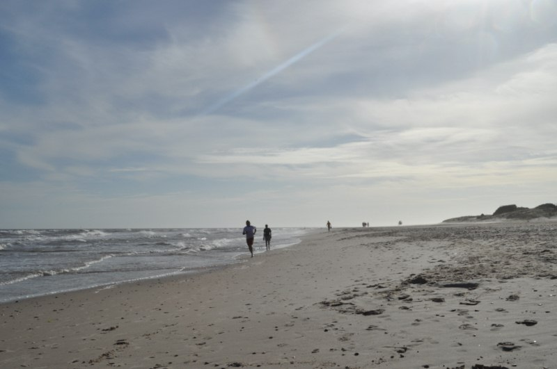 Bello Horizonte Beach, Canelones Department, Uruguay.